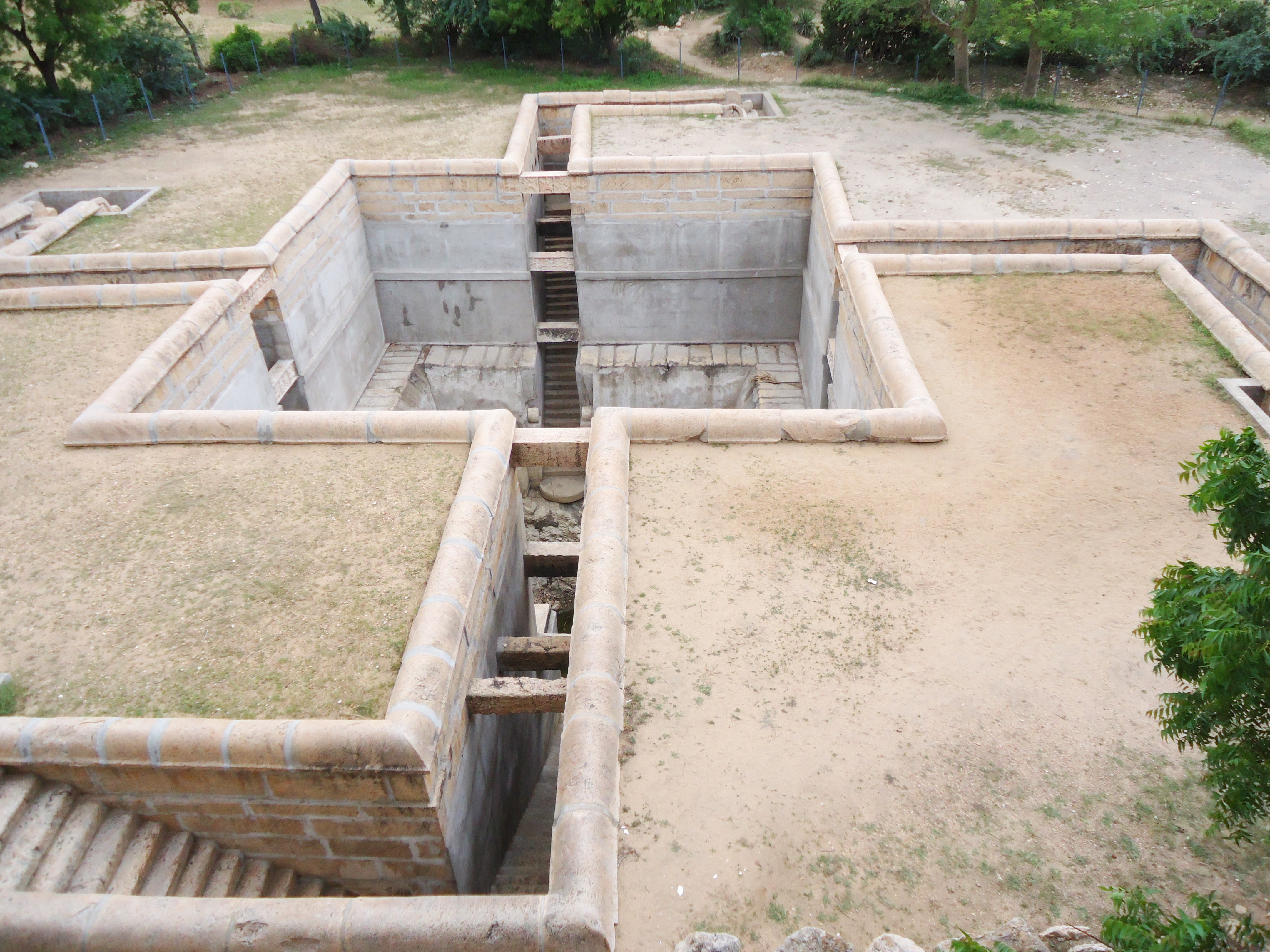 Swastika well, also known as Marpidugu Perunkinaru, was dug by King Kamban Araiyan. One inscription found in this well is in poetical form and describe the immortal life of man. It belongs to 8th century CE.